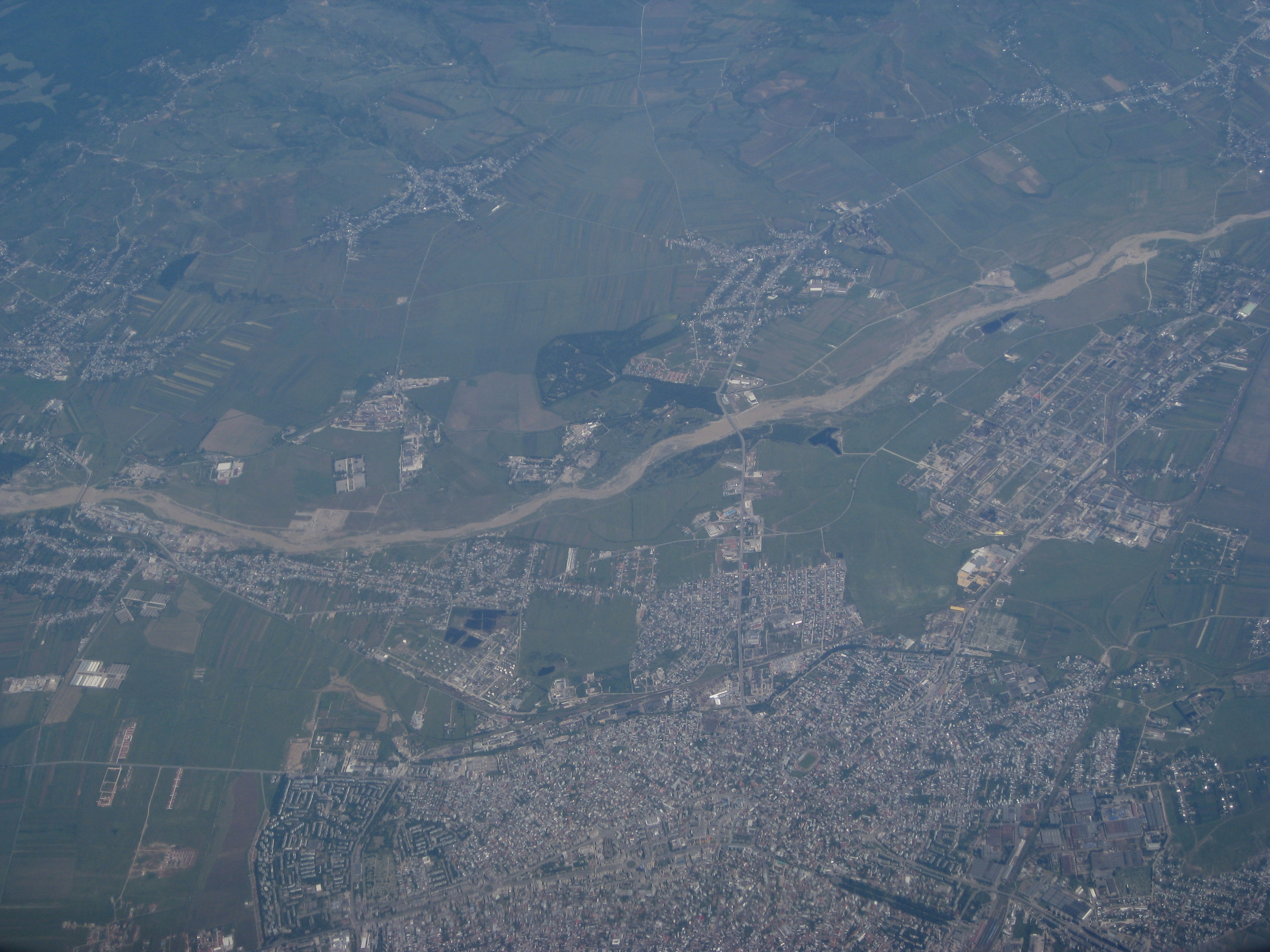 The following is the author's description of the photograph quoted directly from the photograph's Flickr page."i090614 295 "